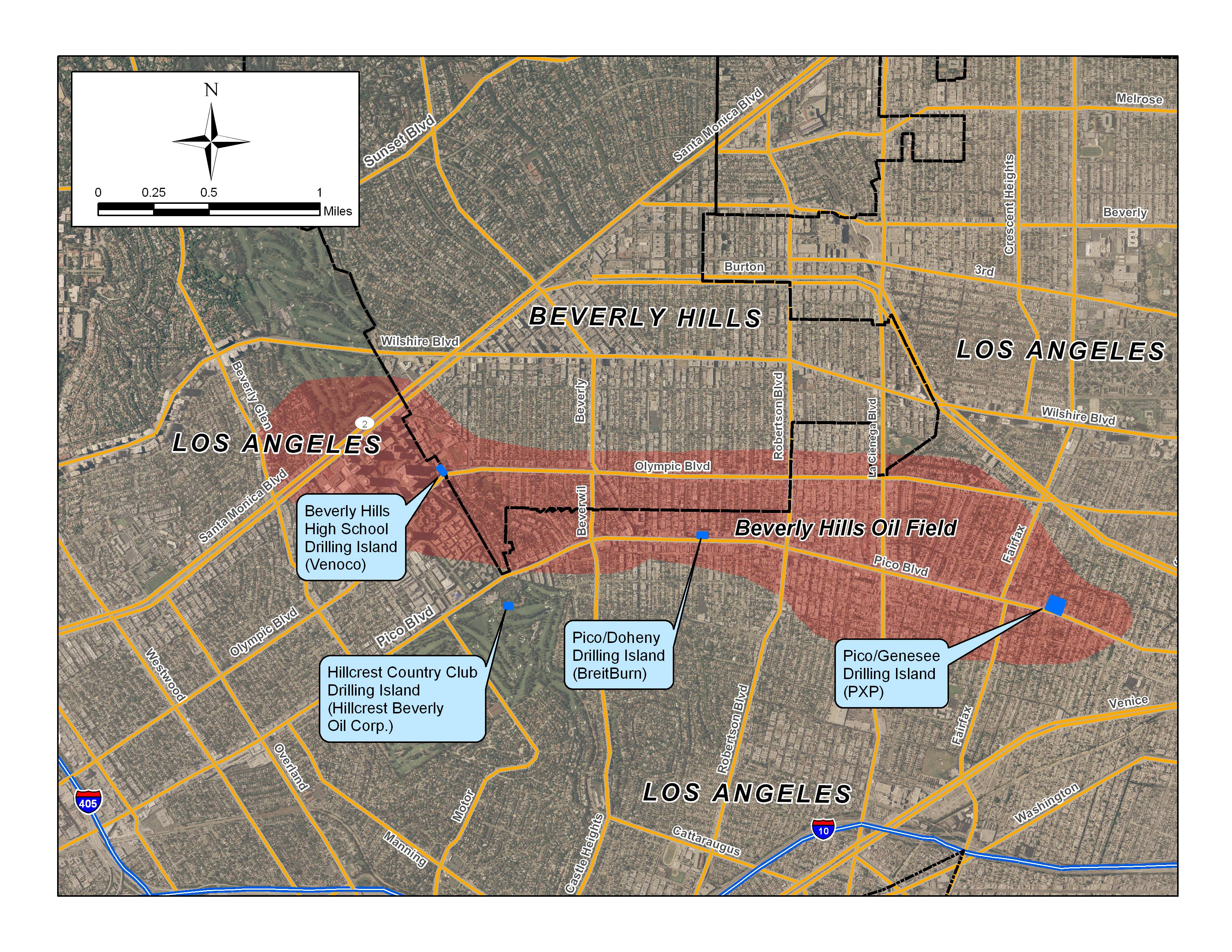 Beverly Hills Oil Field detail, showing drilling islands. Oil field boundaries from California Department of Conservation. Map projection California State Plane Zone V NAD 83. NOTE: THE LOCATION OF THE ACTUAL OIL FIELD MIGHT BE ACCURATE HOWEVER LAND AREAS EFFECTED EXTEND FURTHER NORTH, TO AT LEAST THE 200 BLOCK SOUTH OF WILSHIRE BLVD, ACCORDING TO THE VARIOUS EXHIBITS CONTAINING RESTRICTIONS, CONDITIONS AND DISCLOSURES ON TITLES/DEEDS FOR THE REAL PROPERTY LOCATED THERE.